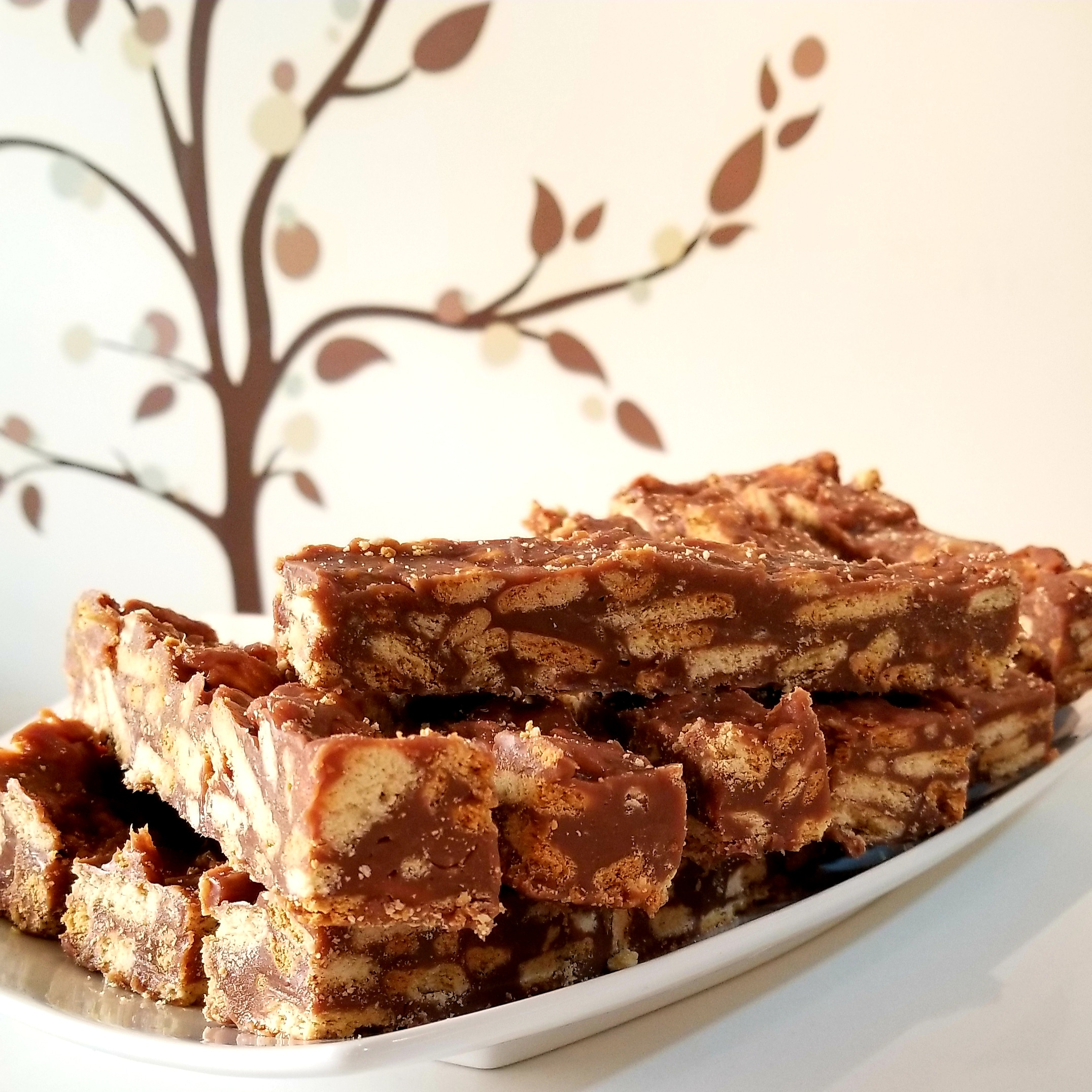 Palha Italiana, a Brazilian dessert baked by Stephanie Vasconcellos in Cascais, Lisboa (Lisbon), Portugal.